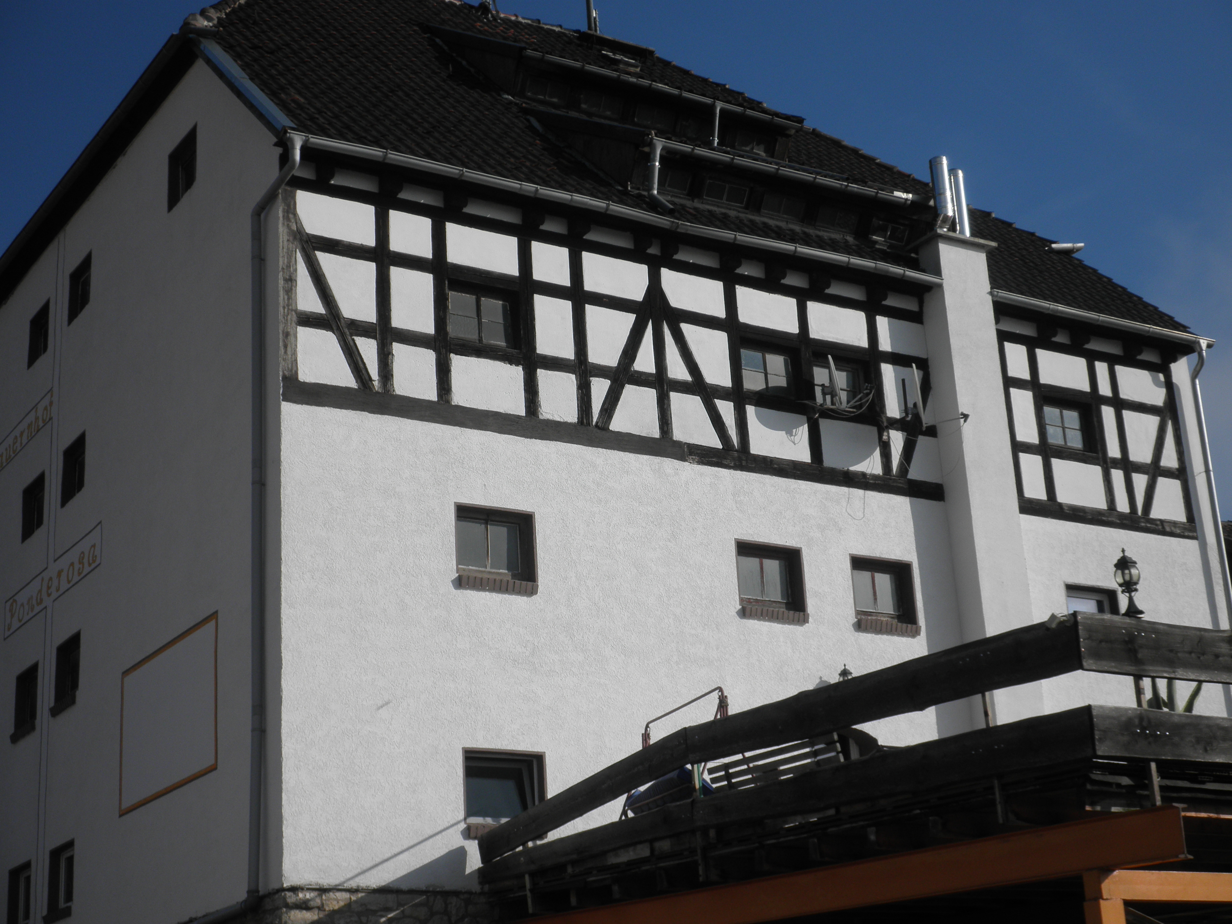 Warehouse in Großwerther in Thuringia